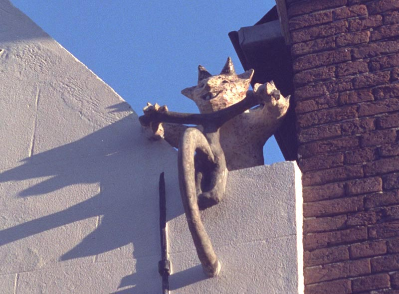 A gutterghost in the town Zaltbommel bikes out of the gutter.